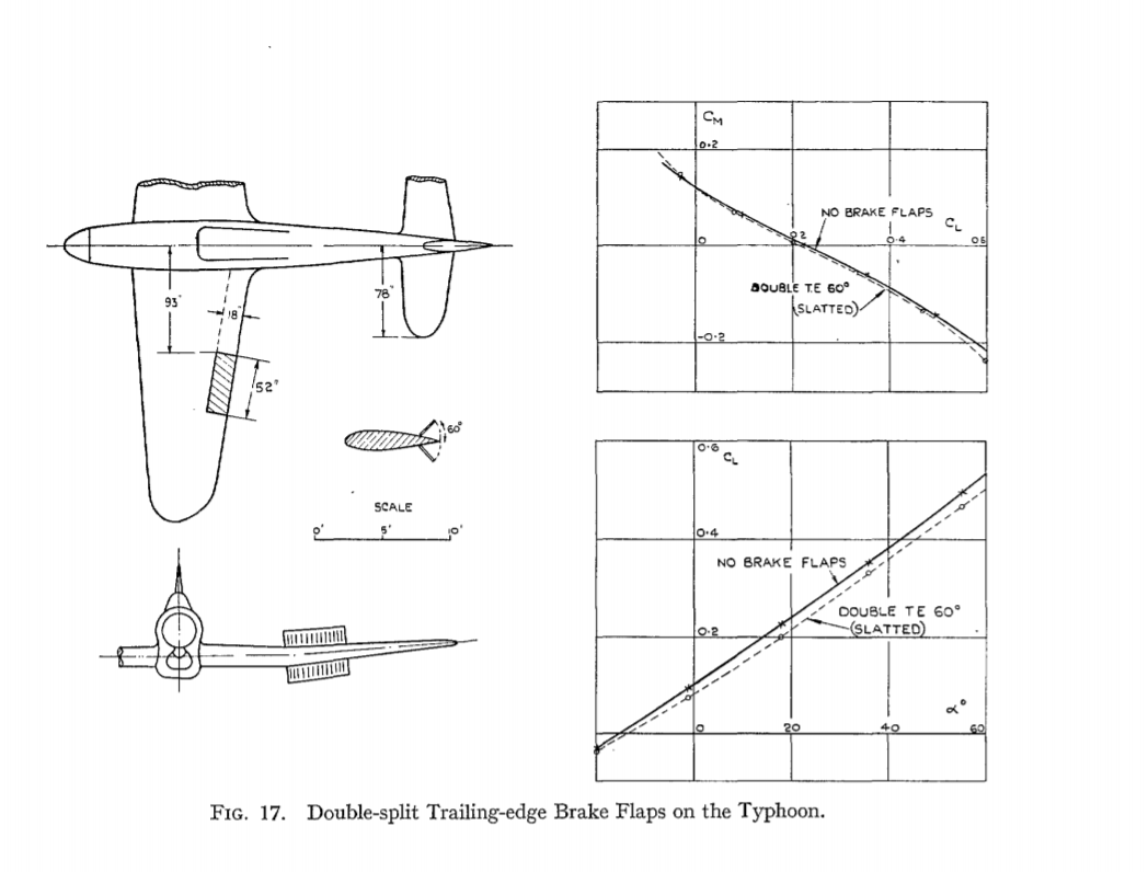 RAF Hawker Typhoon's double-split brake flaps and drag coefficient graphs analyzing drag with and without double-split flaps